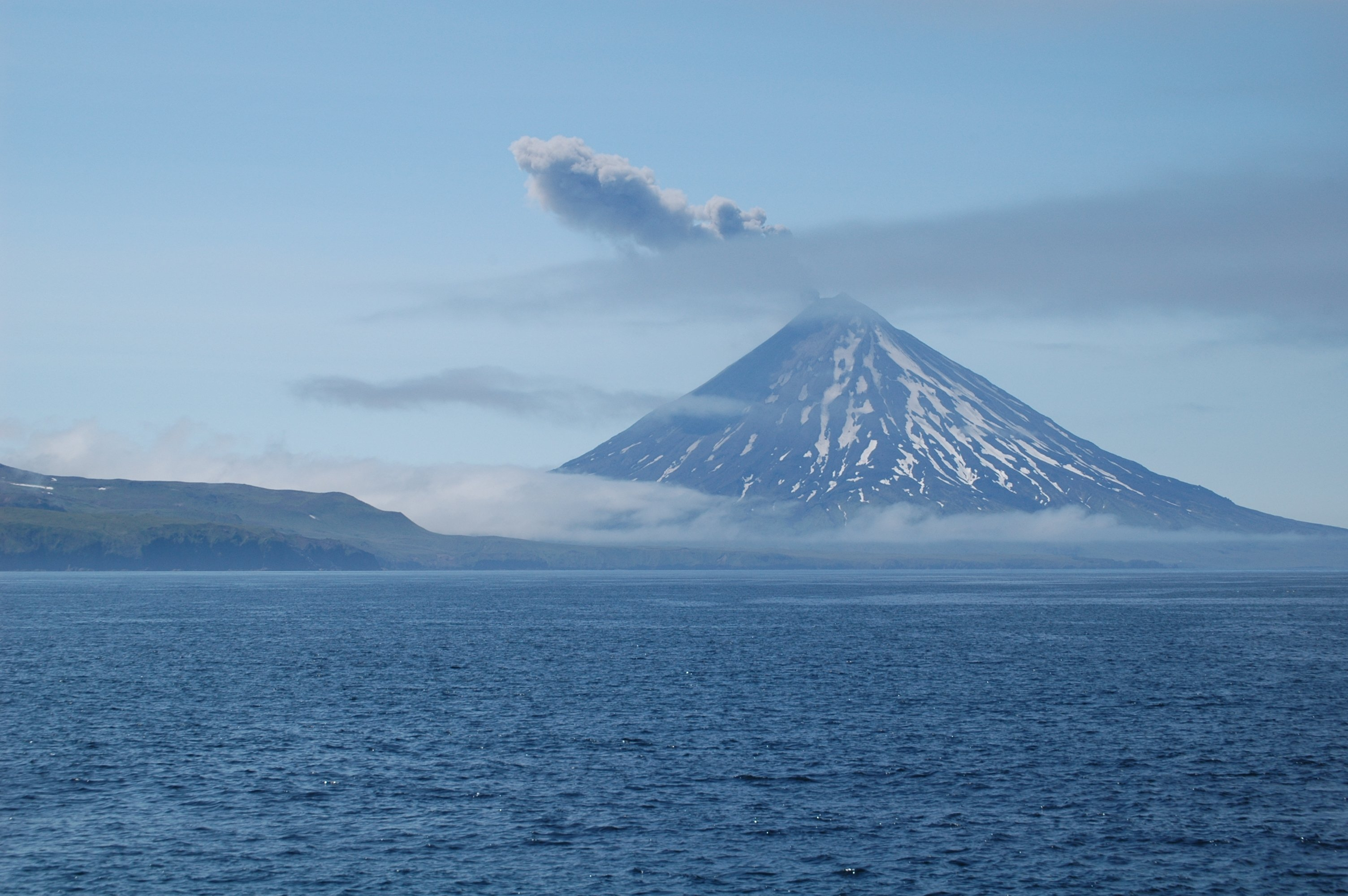 Mount Cleveland erupting ash. Alaska, Aleutian Islands, Kagamil Island.